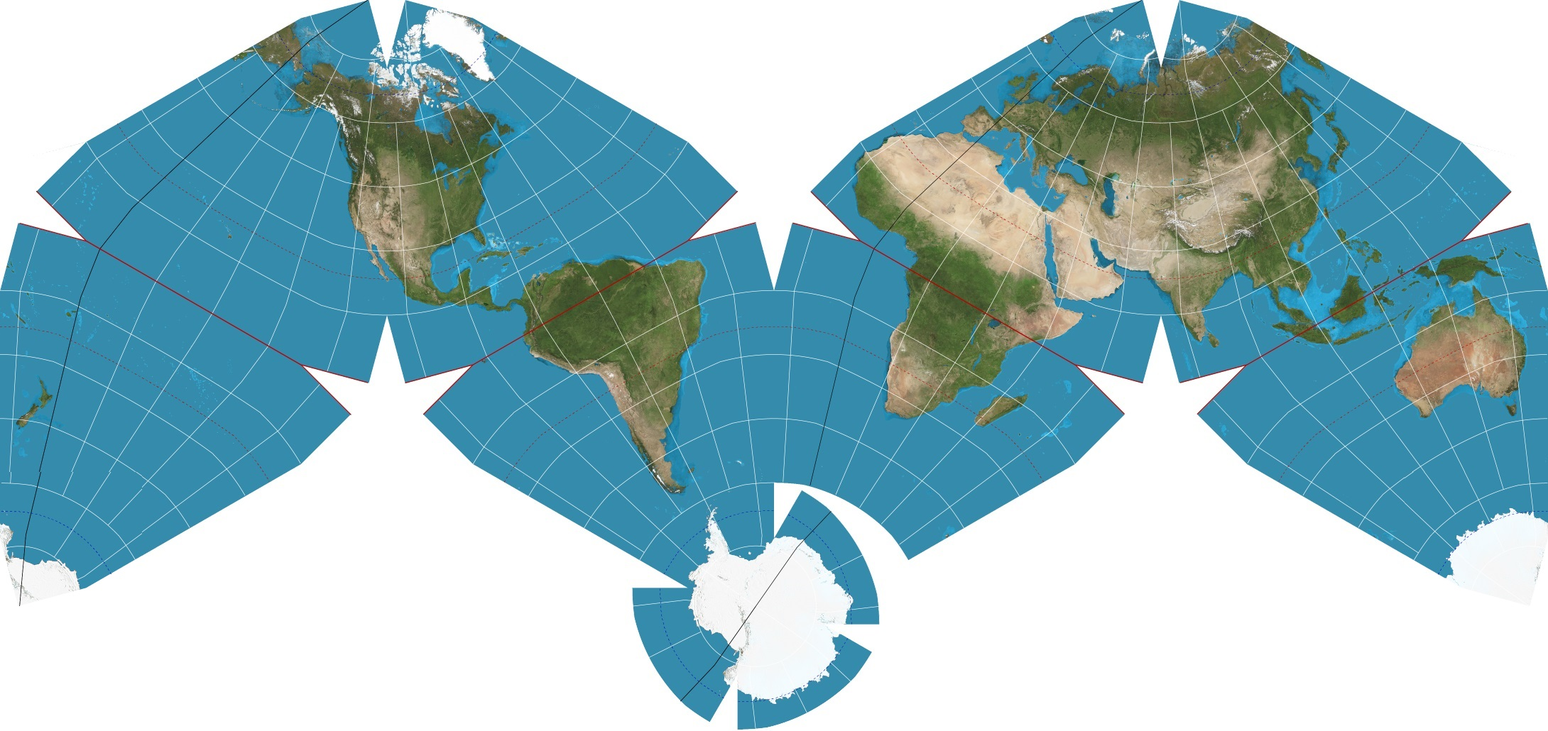 The world on a Cahill–Keyes projection, with central meridian of 20°W and Antarctica reassembled in the center. 15° graticule. Imagery courtesy NASA’s Earth Observatory, with modifications by Mapthematics LLC.